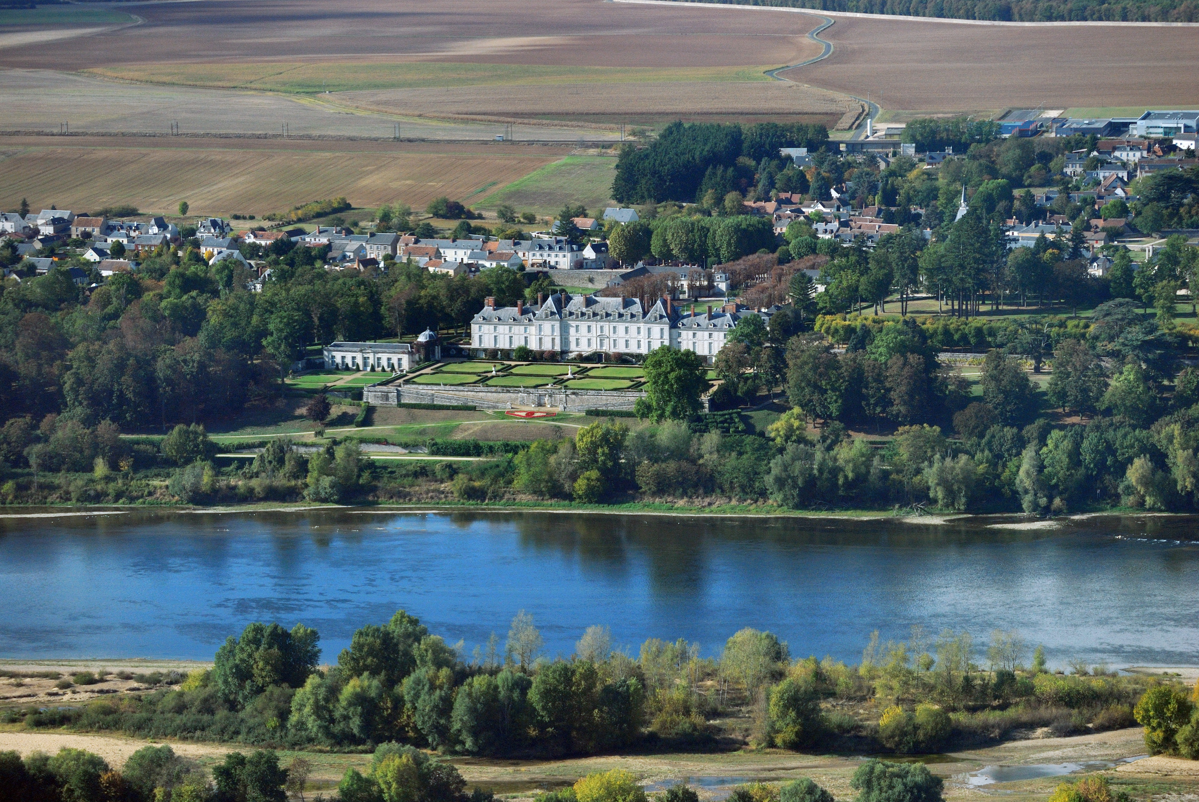 Aerial view of the castle of Menars (Loir-et-Cher department, France) and its immediate surroundings on the right bank of the Loire. Nikon D60 f=72mm f/7.1 at 1/800s ISO 400. Processed using Nikon ViewNX 1.3.0 and GIMP 2.6.6.